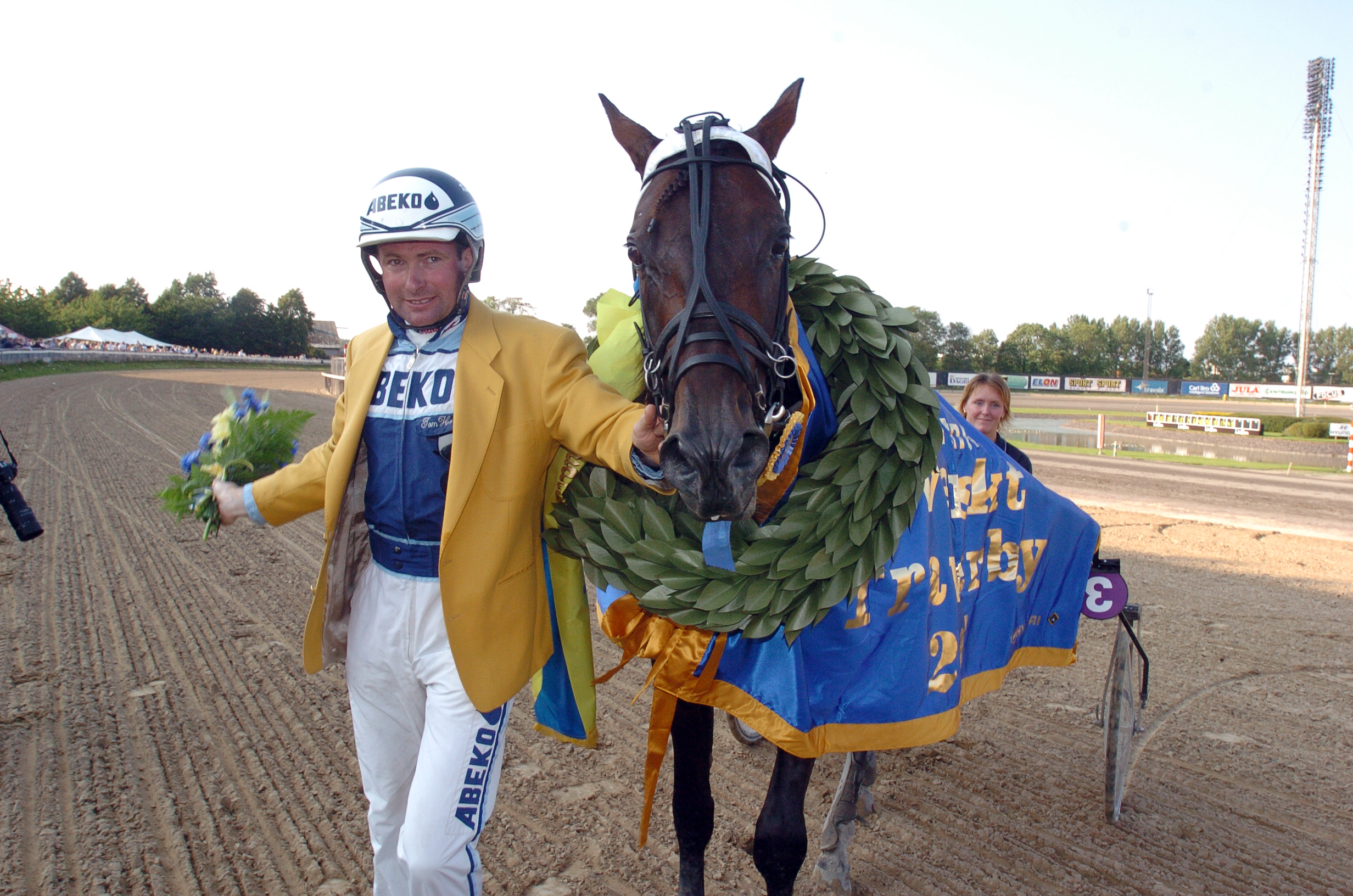 Gazza Degato and Tom Horpestad after winning "Svenskt Travderby" 2004-09-04 at Jägersro.